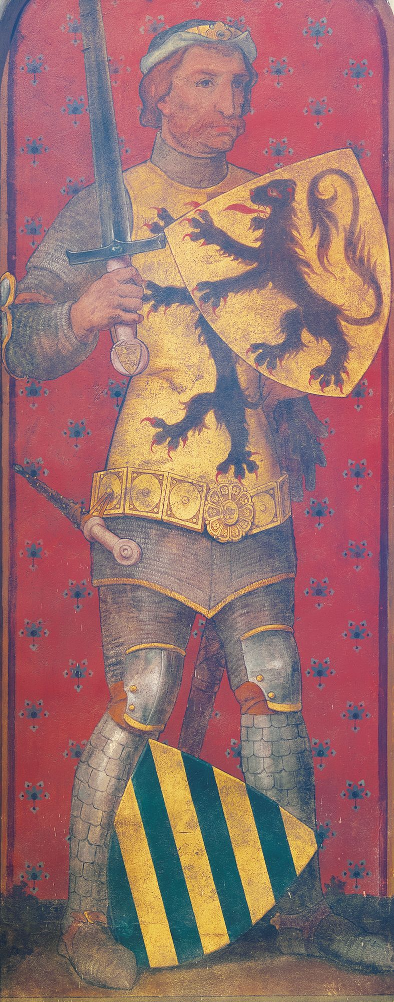 Gui of Dampierre